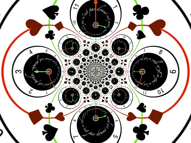 This picture represents the result of a conformal transformation of the complex plane tiled by a clock. Here: the inversion z ↦ 1 / z {\displaystyle z\mapsto 1/z} .